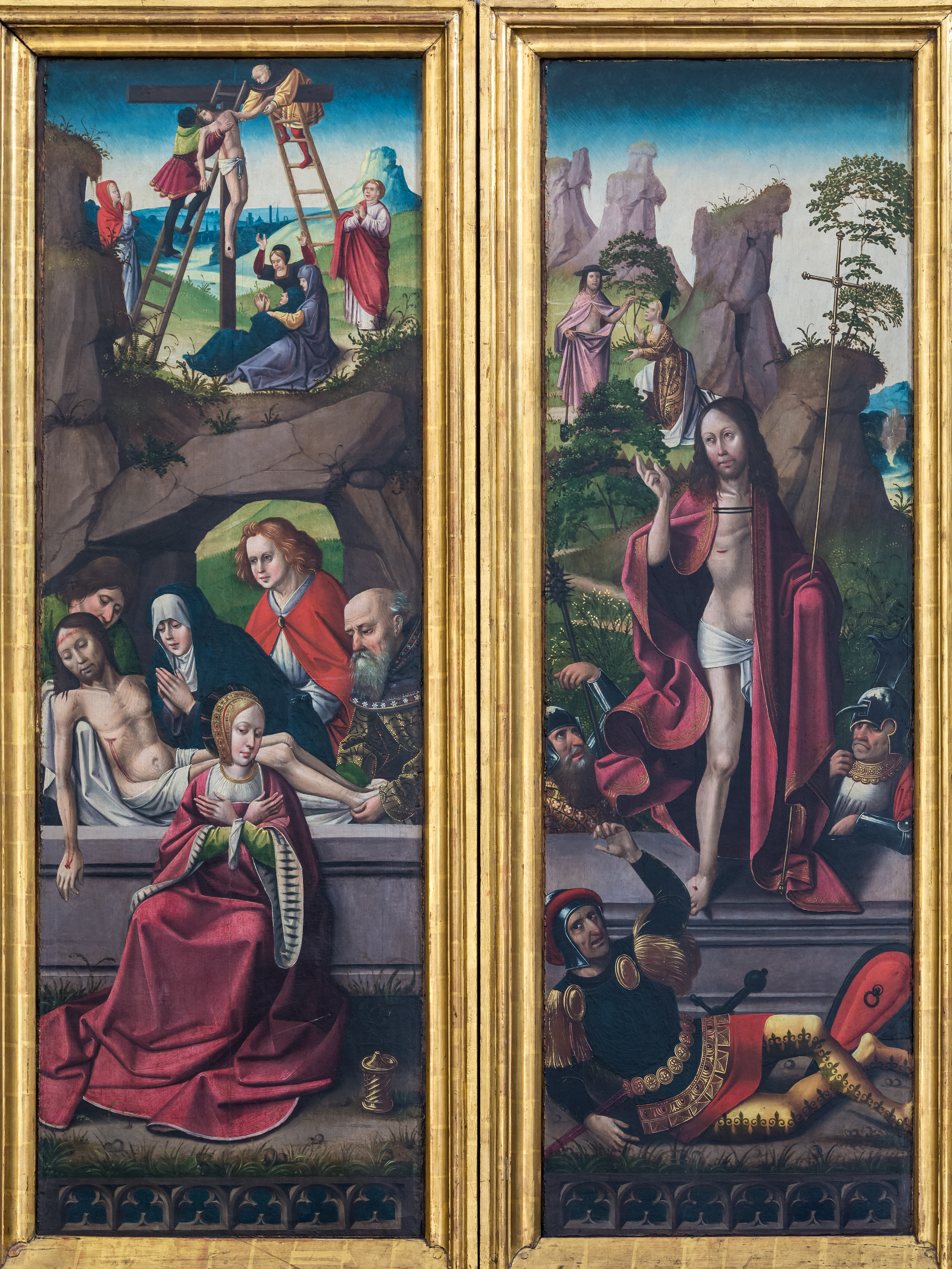 Right wing of the winged triptych at the Church of the Teutonic Order in Vienna, Austria. Panel paintings by an anonymous Flemish master, Mechelen 1520. This altarpiece was originally made for St. Mary's Church, Gdańsk, and came to Vienna in 1864.